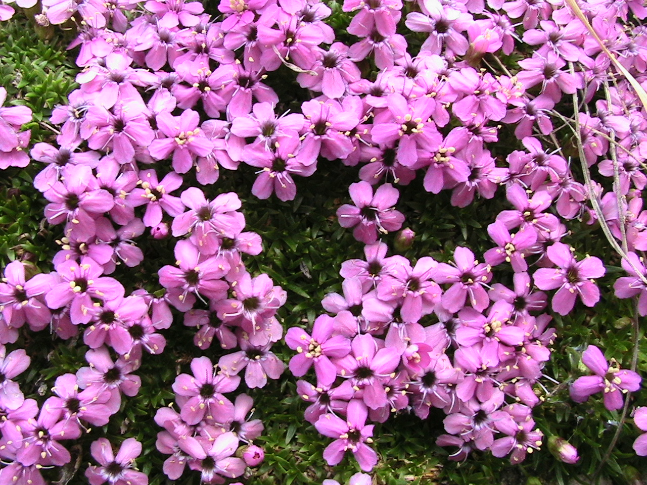 Silene acaulis. In Cabdella (Pallars Jussà - Catalunya. To 2.140 m altitude